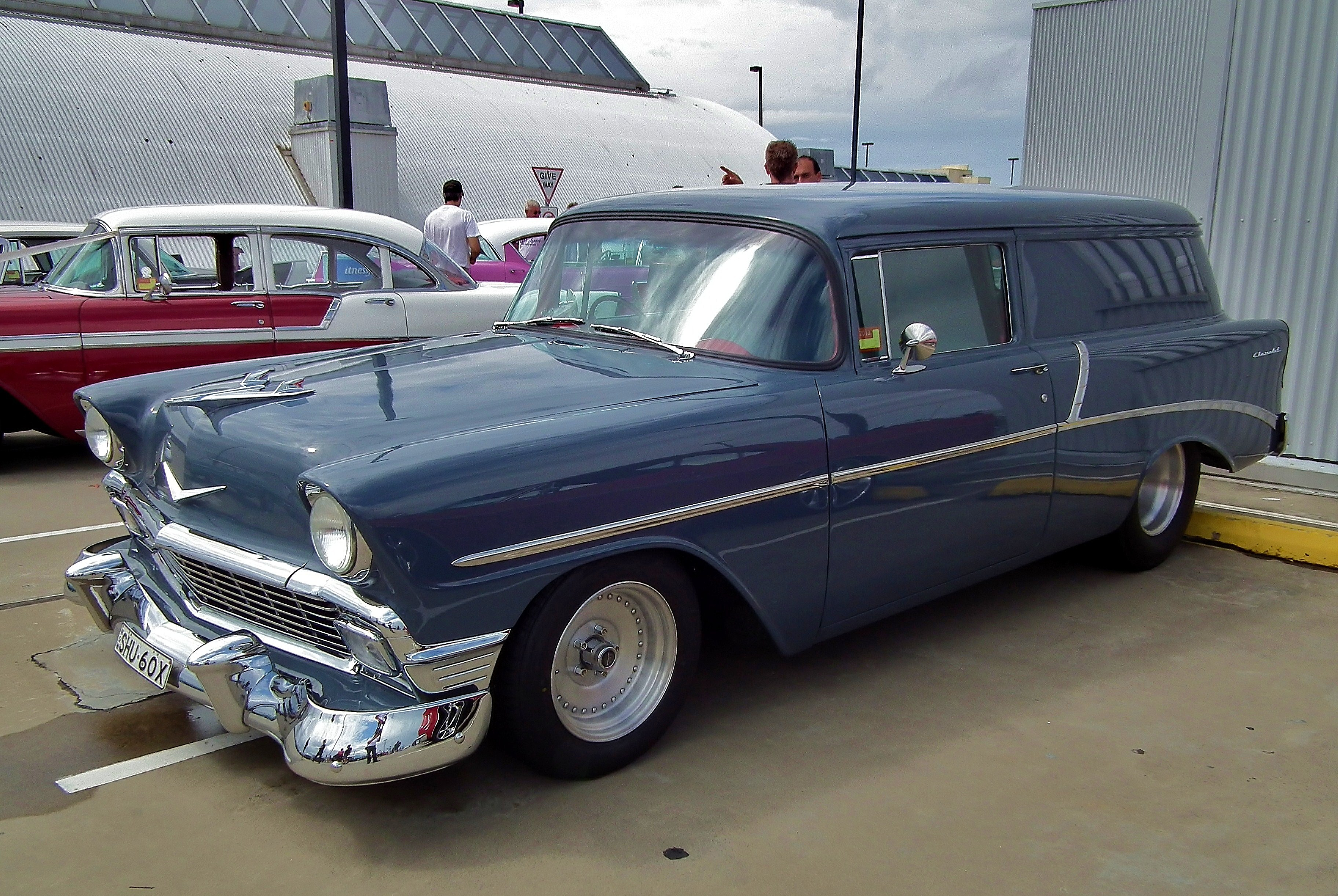 1956 Chevrolet sedan delivery. Taken at the 2012 New South Wales All American Day, held at Castle Towers Shopping Centre, Castle Hill, Sydney.